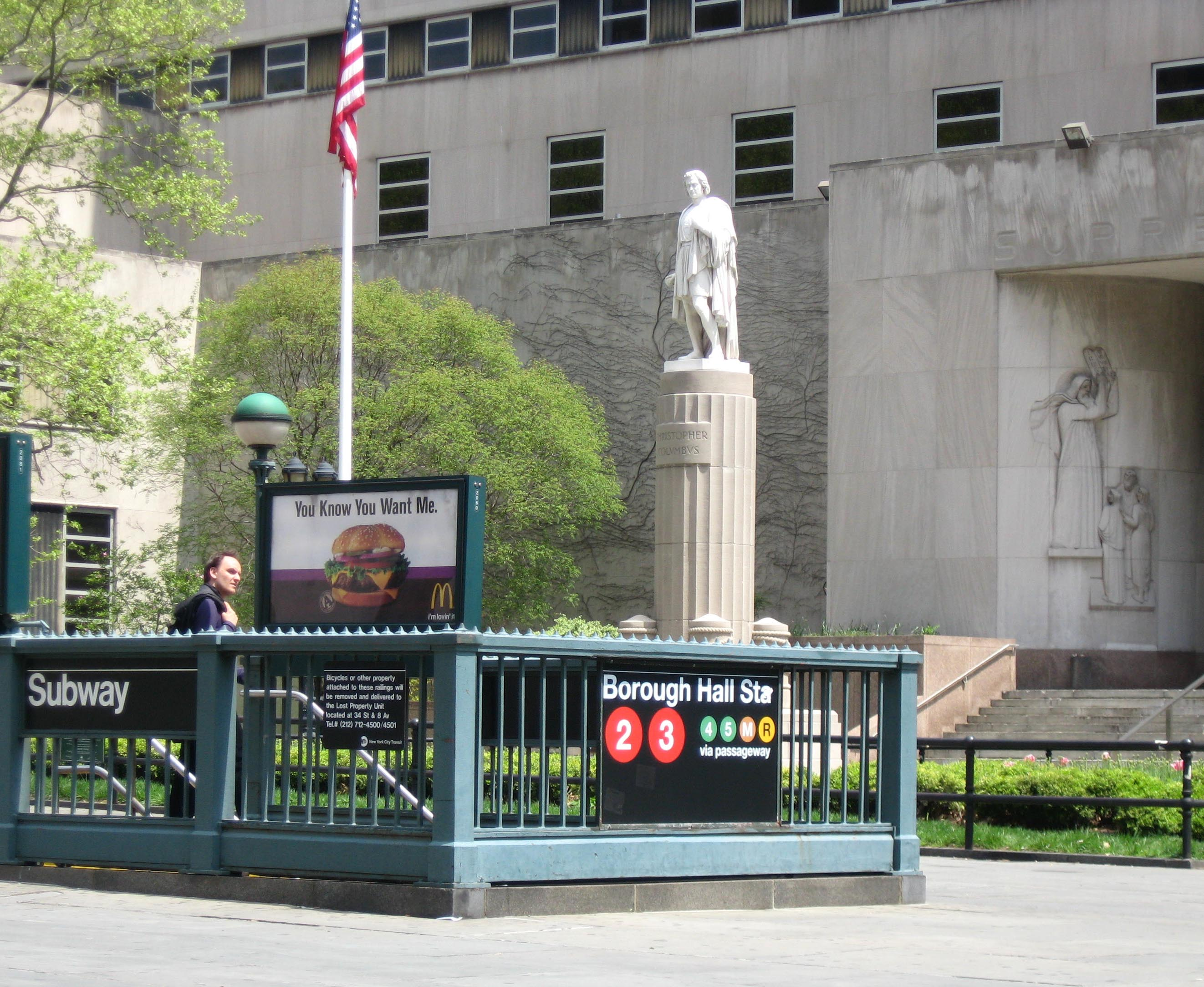 Looking northeast at Boro Hall Station stair at Columbus Park on a clearing springtime early afternoon.